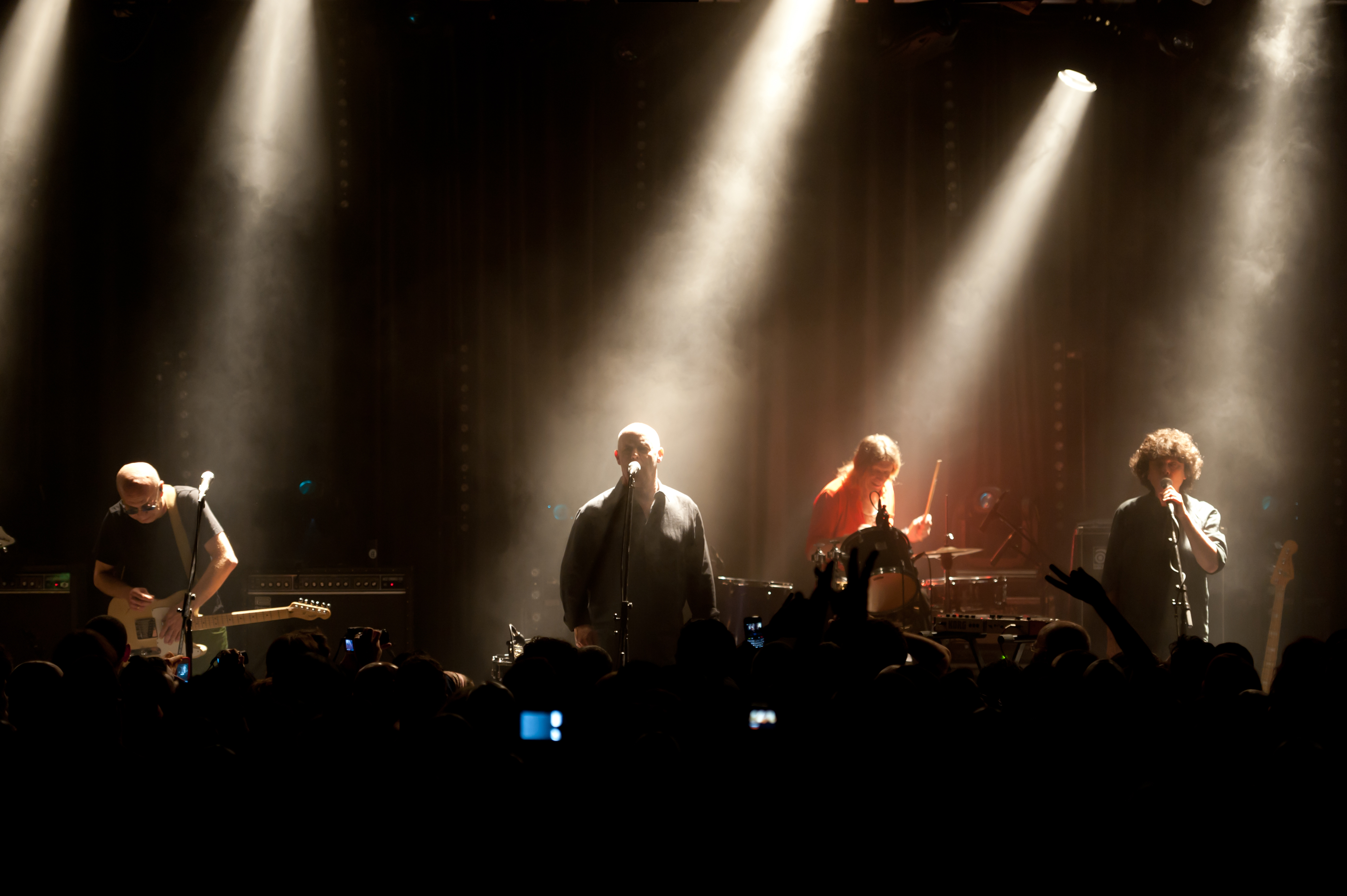 Minimal Compact, 2012 reunion in Tel Aviv